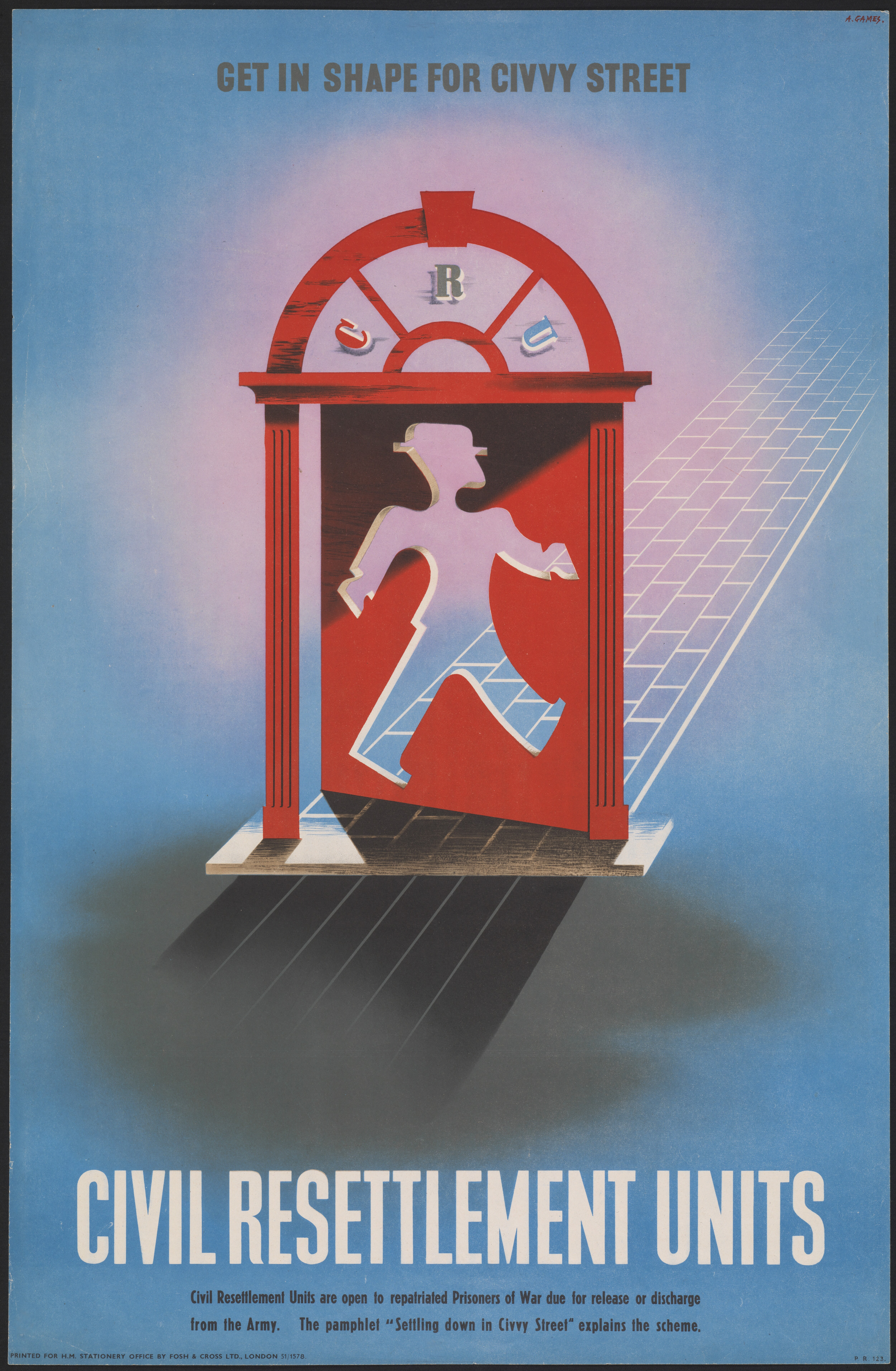 Get in Shape for Civvy Street - Civil Resettlement Units whole: the image occupies the majority. The title is separate and positioned across the top edge, in green. The subtitle is separate and placed in the lower quarter, in white. The main text is separate and located across the bottom edge, in black. Further text is integrated and positioned in the upper centre, in red, green and blue. All set against a blue background. image: a depiction of a red door into which the shape of a walking man is cut. Beyond the door is a path leading into the distance. text: A. GAMES. GET IN SHAPE FOR CIVVY STREET C R U CIVIL RESETTLEMENT UNITS Civil Resettlement Units are open to repatriate Prisoners of War due for release or discharge from the Army. The pamphlet 'Settling down in Civvy Street' explains the scheme. PRINTED FOR H.M. STATIONERY OFFICE BY FOSH AND CROSS LTD., LONDON 51/1578. P.R. 123.